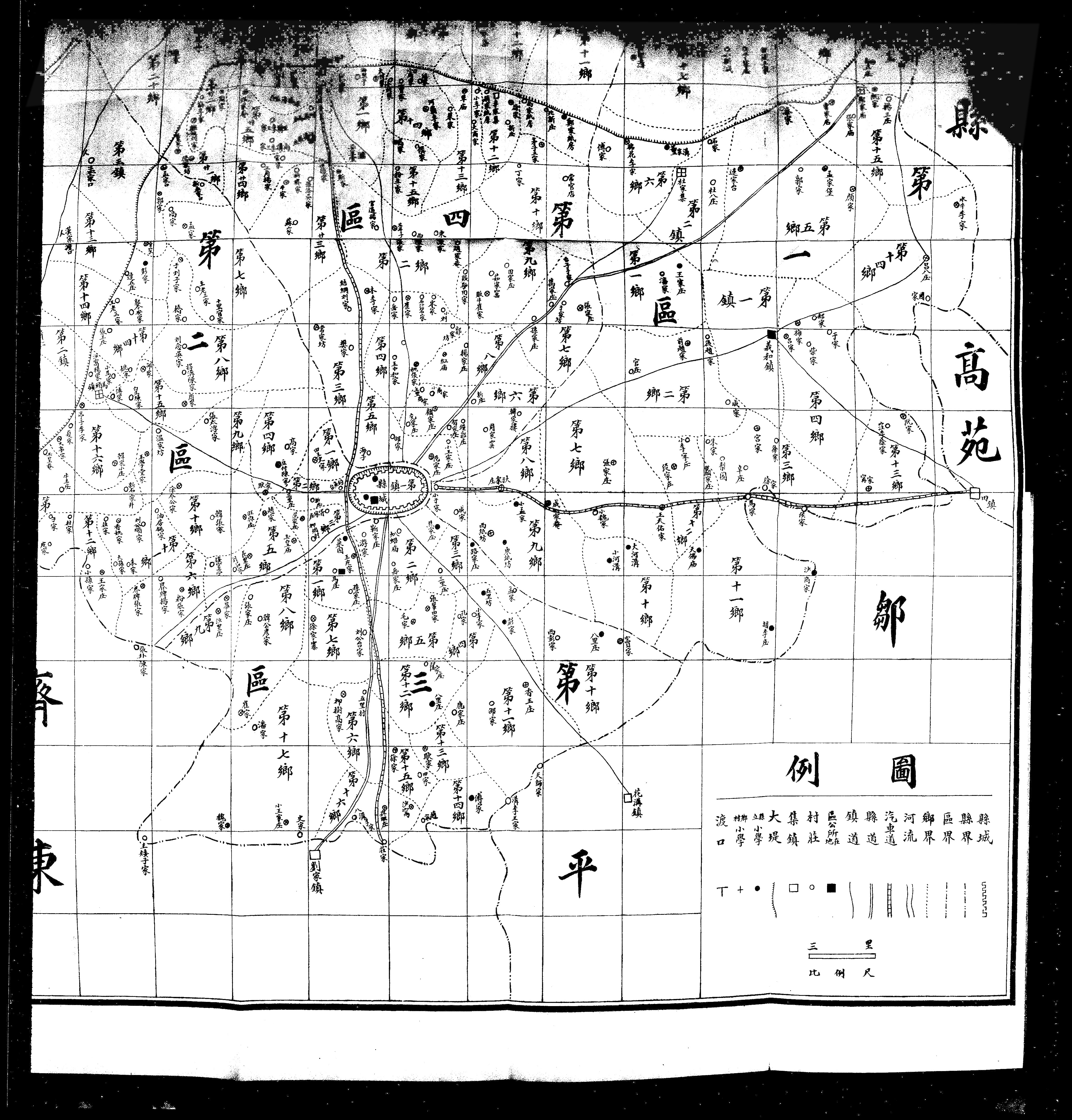 qingcheng county in 1935